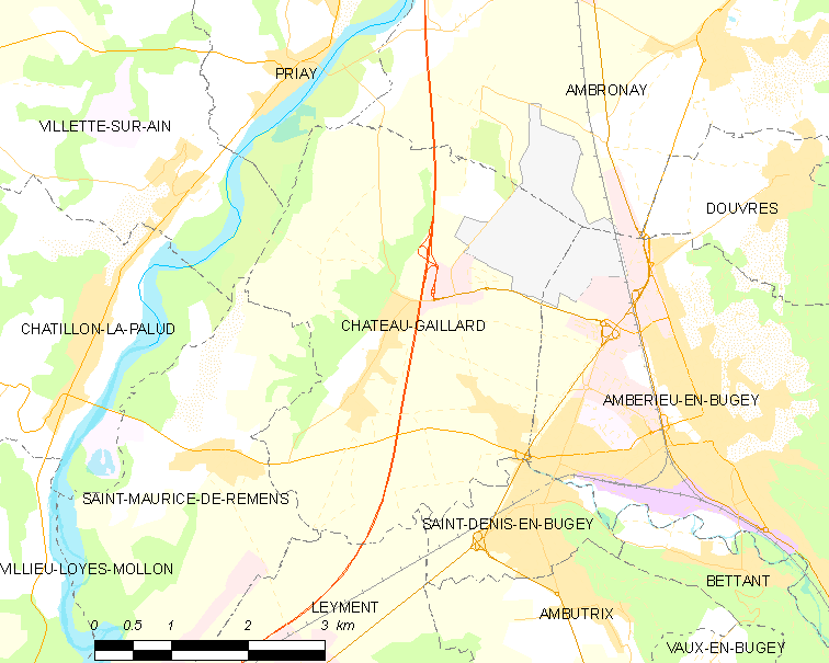 Map of French commune: Château-Gaillard Map commune FR insee code 01089.png